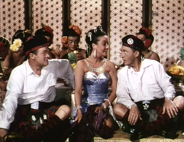 Cropped screenshot of Bob Hope, Dorothy Lamour, Bing Crosby from the film Road to Bali.